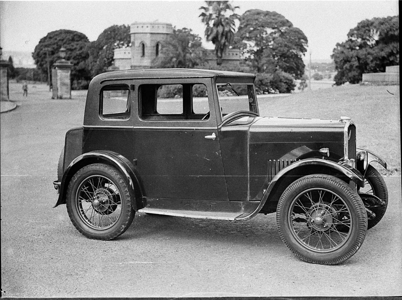 Triumph coupe